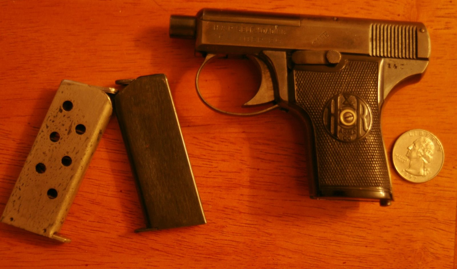 H&R self-loading (automatic pistol Image is released into the Public Domain for any and all uses. Image is released into the Public Domain for any and all uses.